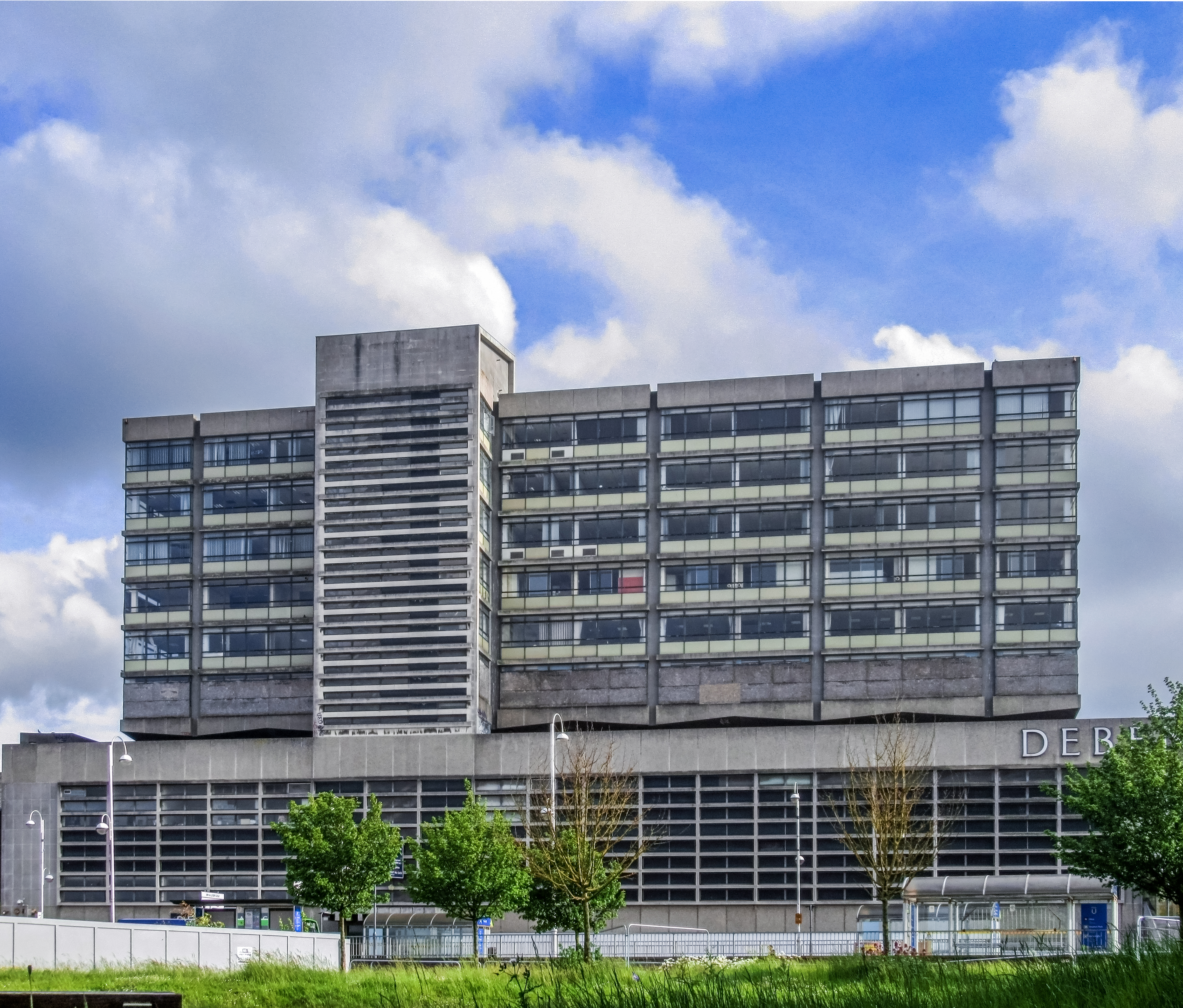 concrete debenhams in swindon, woohoo~